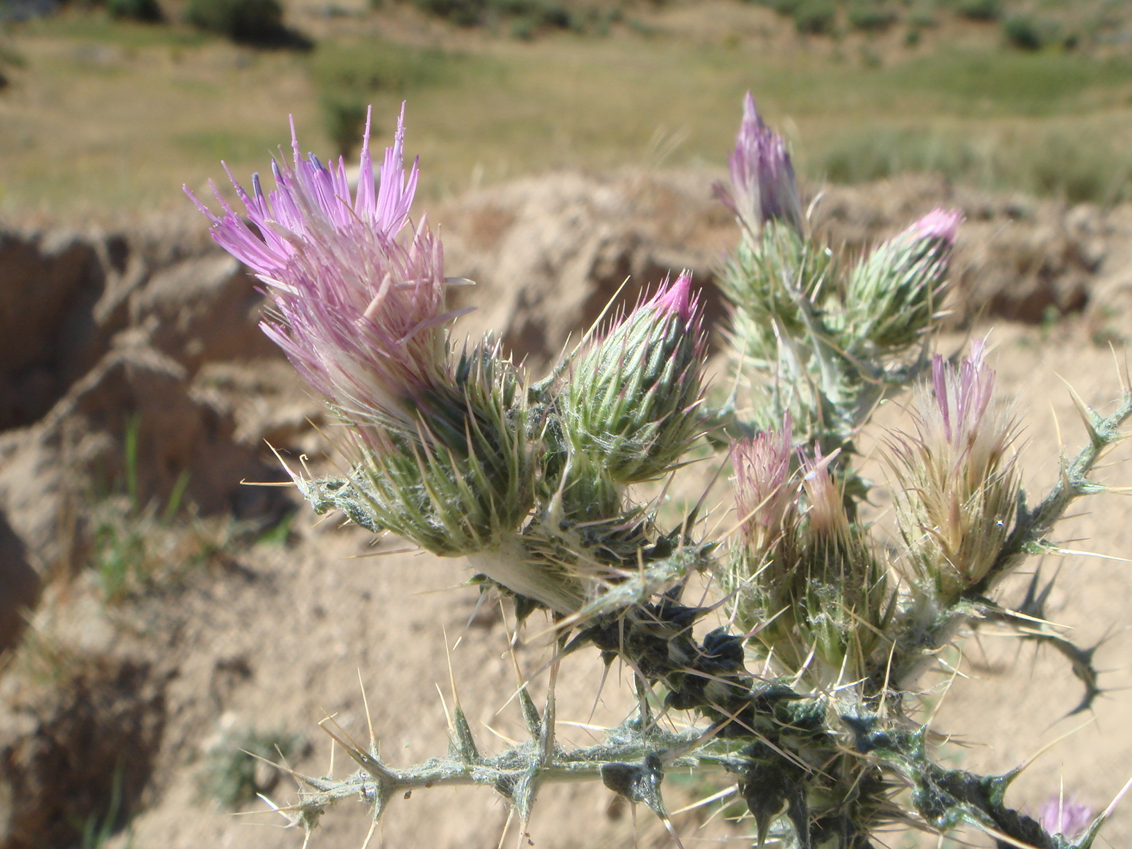 Carduus carpetanus, Spain, province of Ávila.